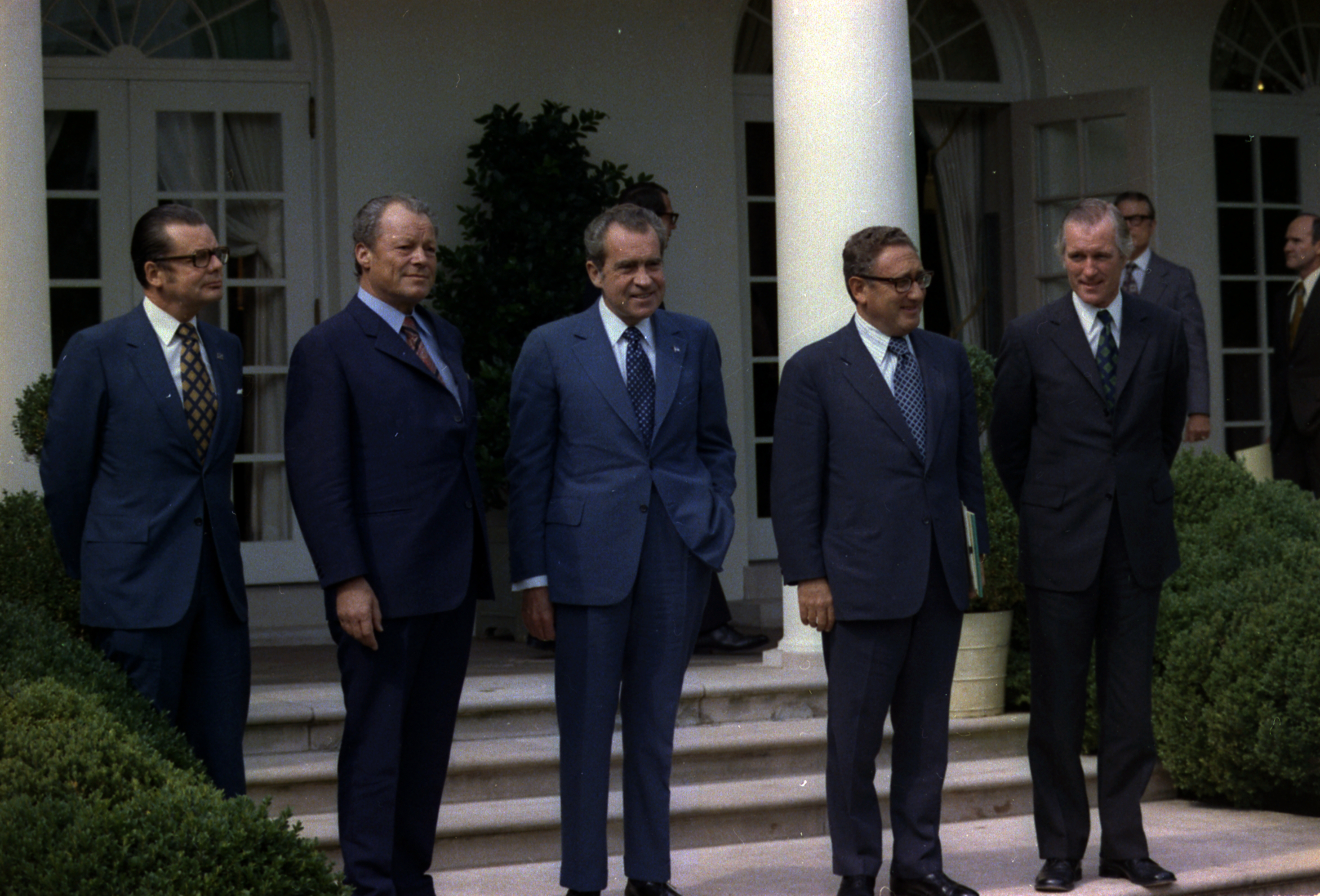 The West German Chancellor Willy Brandt and the U.S. President Richard at the White House in 1973. Pictured (l-r): Berndt von Staden, Willy Brandt, Richard Nixon, Henry Kissinger, Günther van Well.